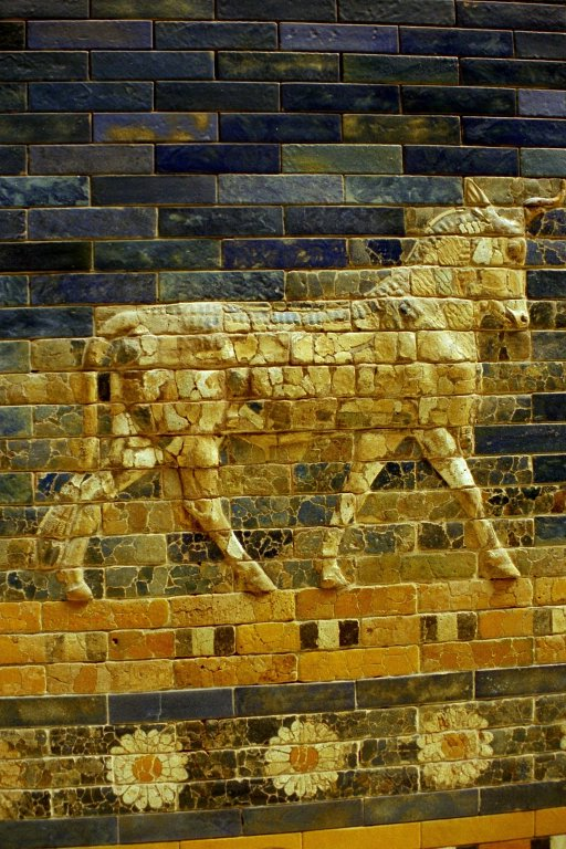 The bull (unicorn) in the bas-relief on the Ishtar Gate at the Pergamon Museum in Berlin.